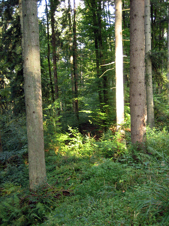 A photograph of the forest next to the Jaekle-Grave. I shot this photo myself.